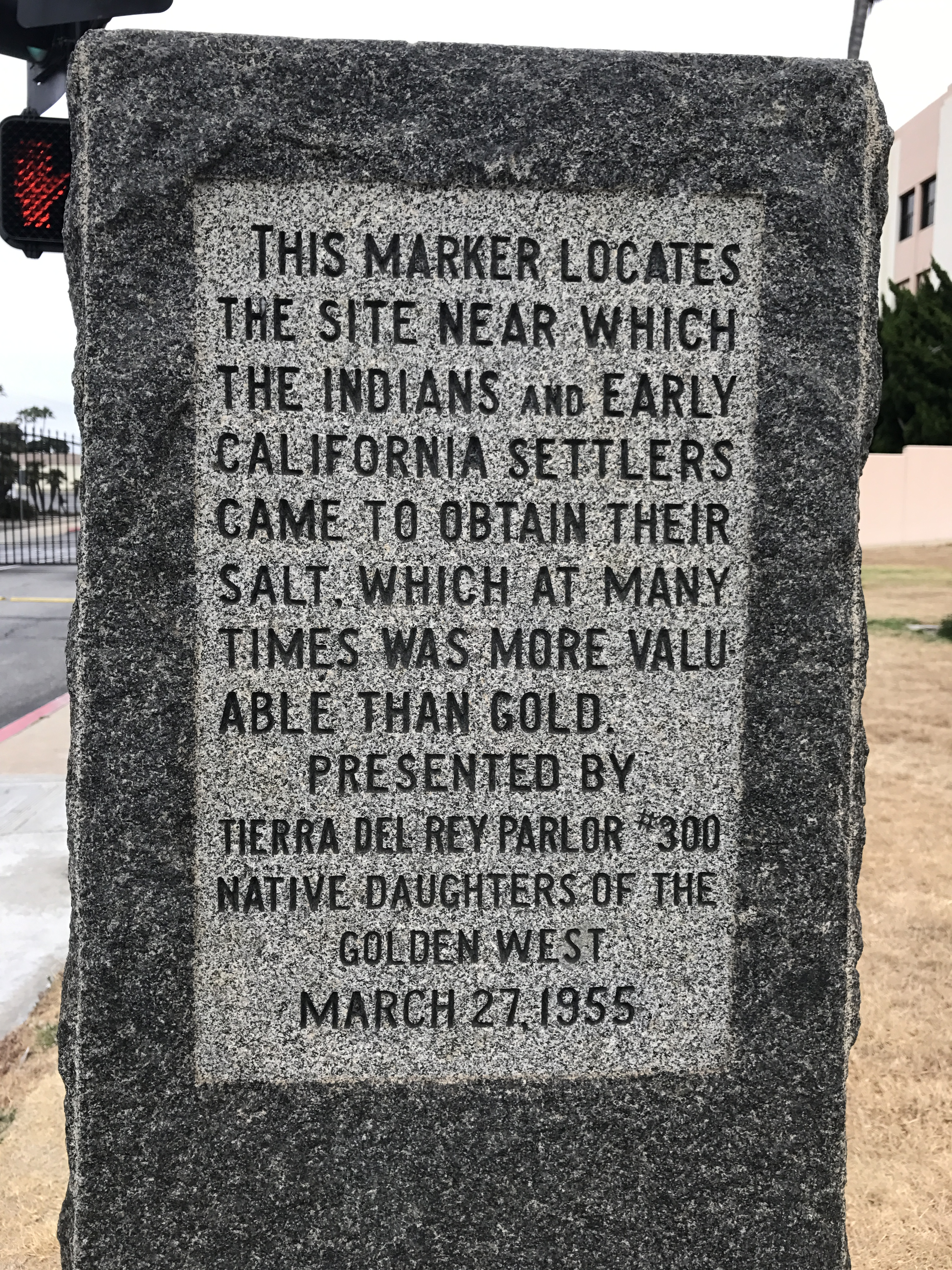 Photograph of the Old Salt Lake historical marker in Redondo Beach, California.